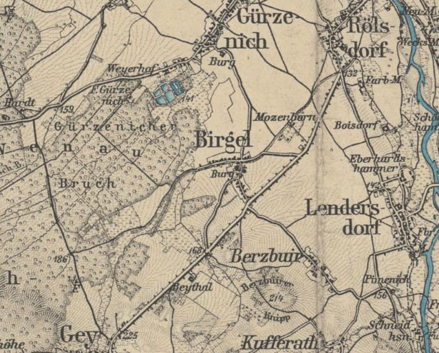 Birgel on a topographic map dated 1897